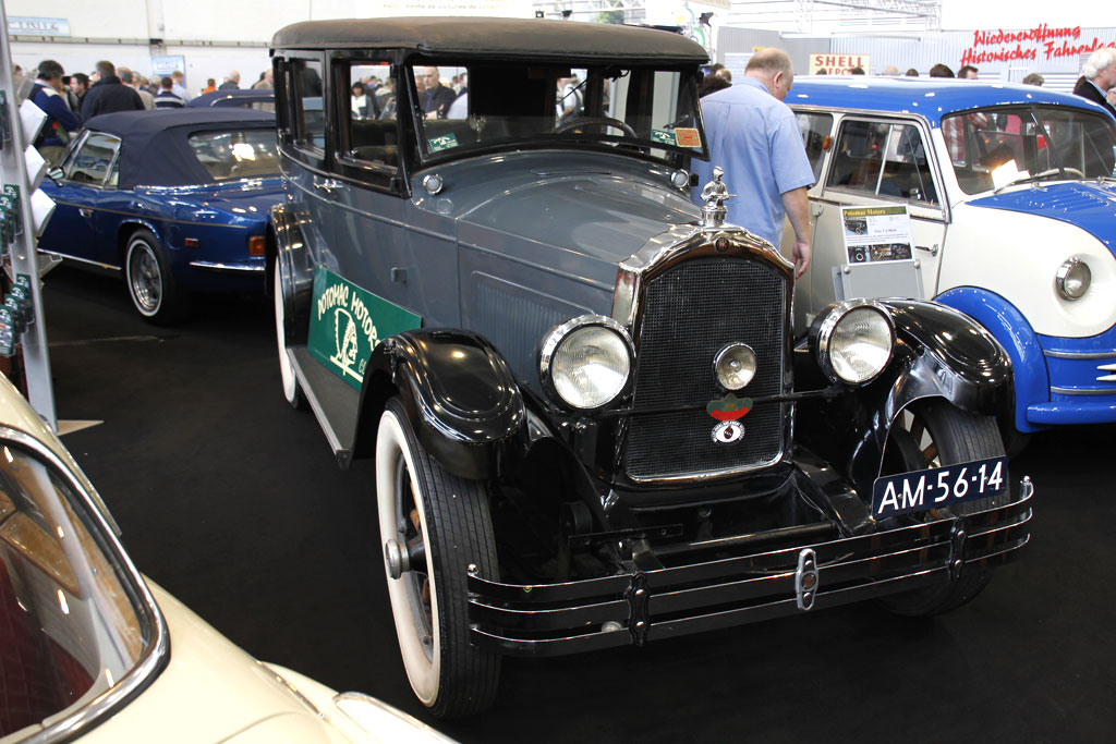 1927 Willys Knight 70A_IMG_2803